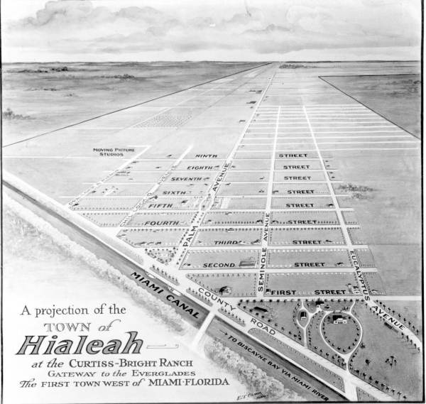 A projection from 1922 that reads "A projection of the town of Hialeah at the Curtiss-Bright Ranch: Gateway to the Everglades, the first town west of Miami, Florida" Local call number: Rc01944 Personal Author: Fishbaugh, W. A. (William A.) Title: [Projection of the town of Hialeah at the Curtiss-Bright Ranch] [graphic] Publication info: 1922. Physical descrip: 1 photoprint b&w 8 x 10 in. Series Title: (Reference collection) General Note: Notation at bottom reads: E. T. Clark / Miami.